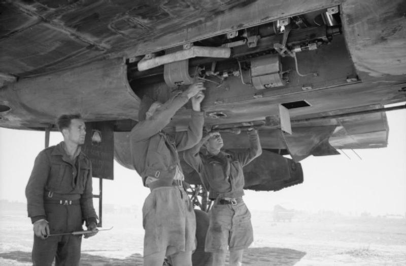 Royal Air Force Operations in the Middle East and North Africa, 1939-1943. Armourers of No. 89 Squadron RAF servicing the 20mm Hispano cannons of a Bristol Beaufighter Mark VIF at Castel Benito, Libya.